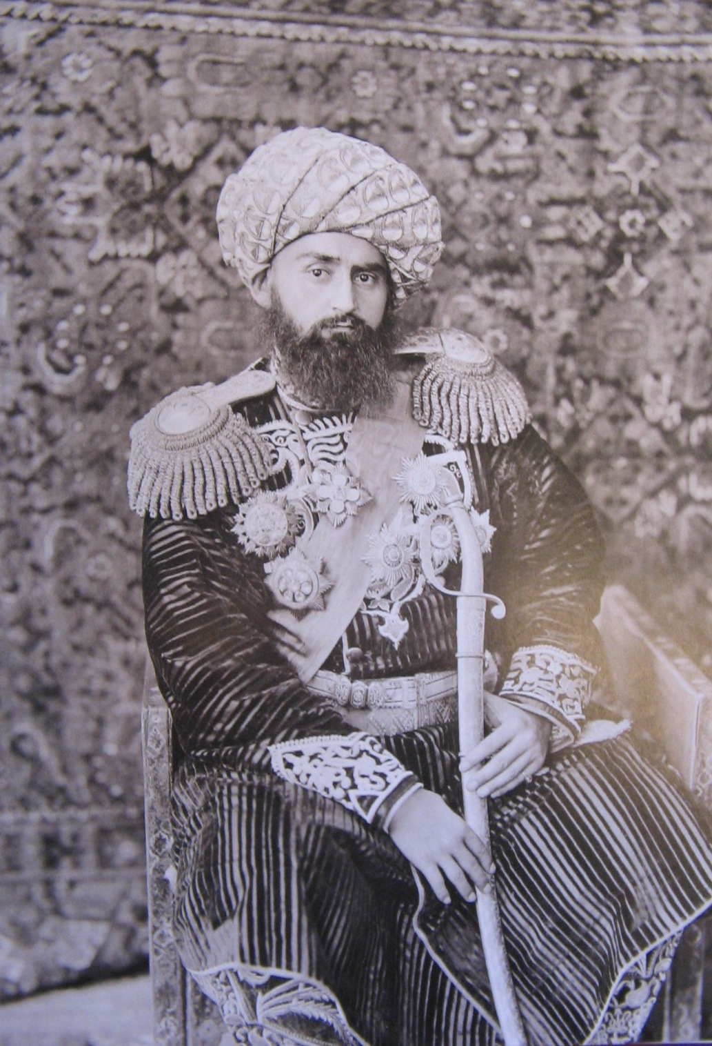 portrait of Bukharan emir Abdulakhad (1885-1910)